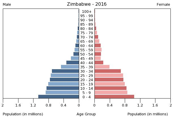 The population pyramid of Zimbabwe illustrates the age and sex structure of population and may provide insights about political and social stability, as well as economic development. The population is distributed along the horizontal axis, with males shown on the left and females on the right. The male and female populations are broken down into 5-year age groups represented as horizontal bars along the vertical axis, with the youngest age groups at the bottom and the oldest at the top. The shape of the population pyramid gradually evolves over time based on fertility, mortality, and international migration trends.